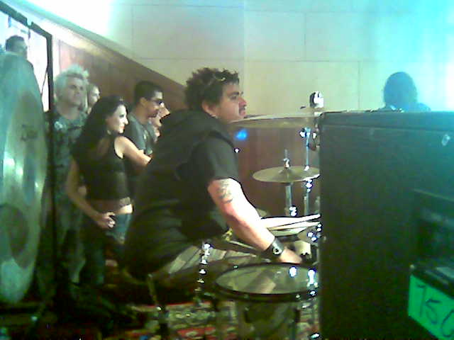 Dave Buckner of Papa Roach during the filming of the "...To Be Loved" music video